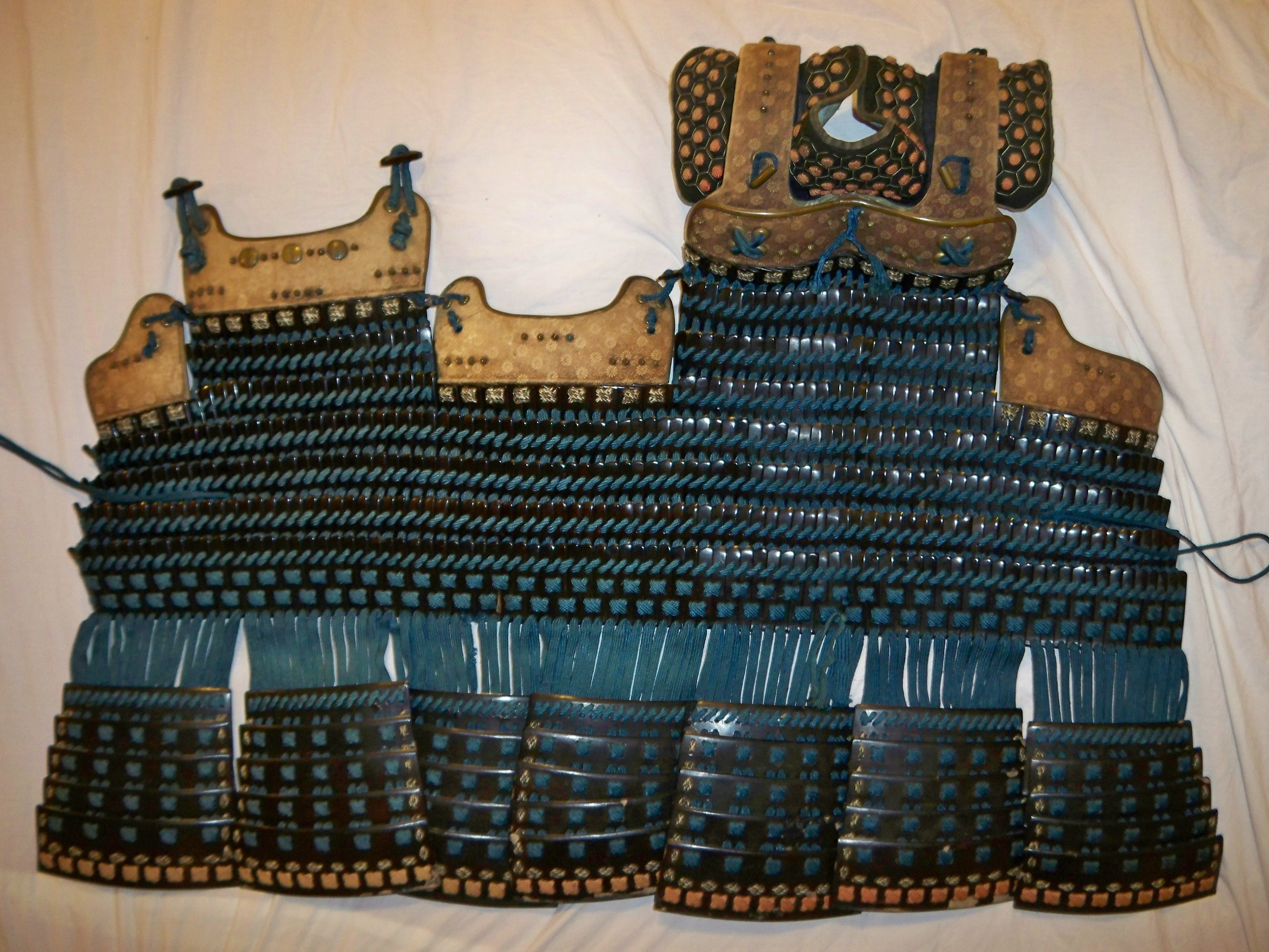 An antique Japanese (samurai) Edo period nerigawa hon kozane maru dou, a chest armor (dou) constructed with over 500 individual small lacquered scales (hon kozane) made from leather (nerigawa) with no hinge (maru).